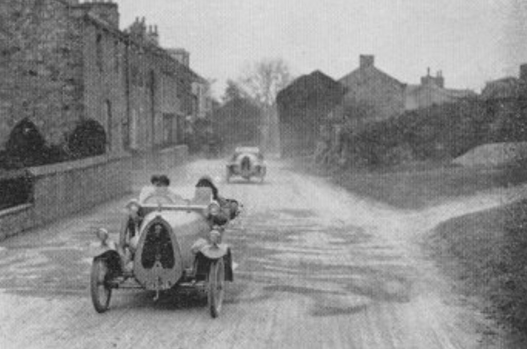 T.B. cyclecar competing in the 1920 M.C.C. London to Edinburgh Trial. Image published by the University of Wolverhampton courtesy of Peter Slater.